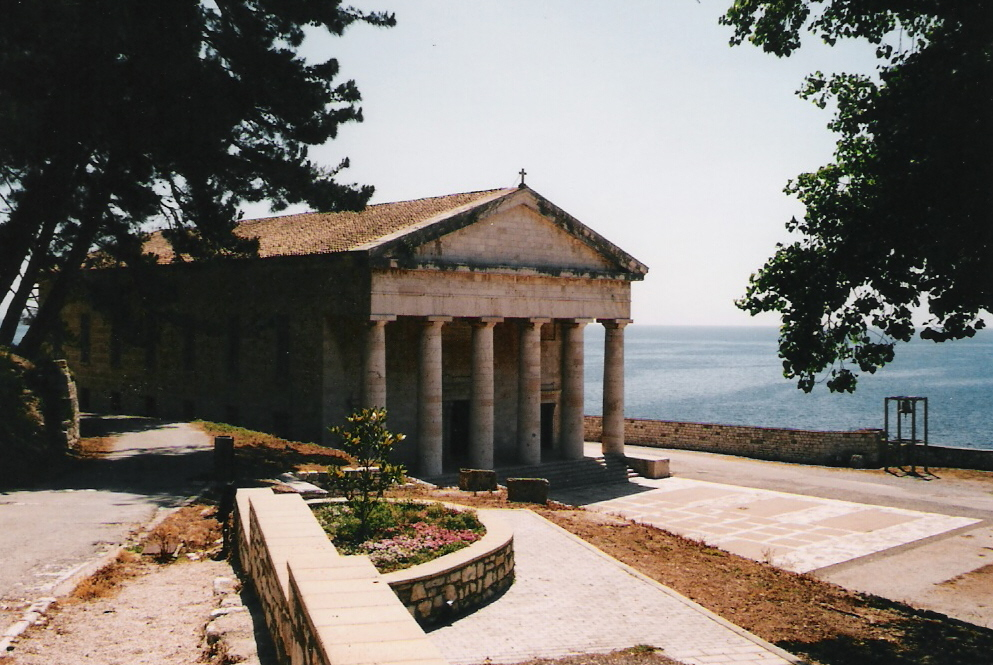 Own Photo; Old Venetian Fortress, St.Georg June 2002 by ERWEH